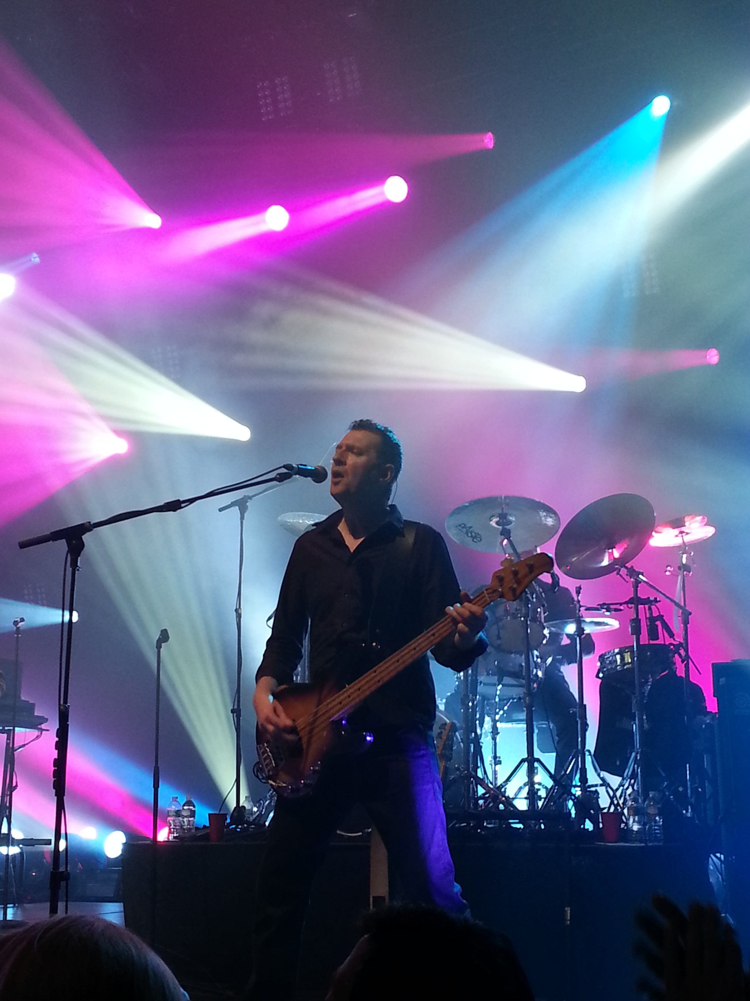 Ged Grimes of Simple Minds, playing at the Count Basie Theater, in Red Bank, New Jersey on October 17, 2013.